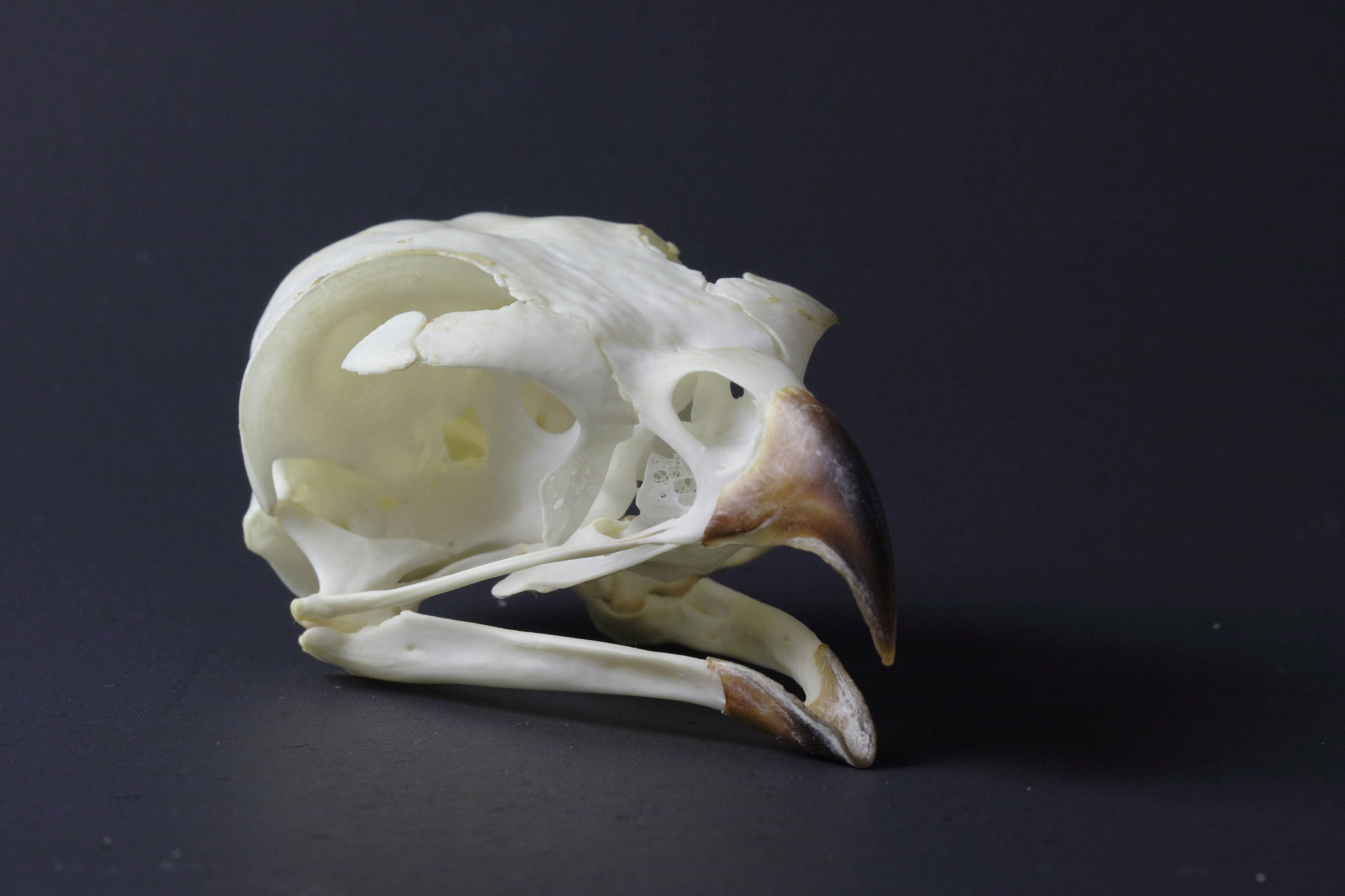 The skull of a Ferruginous Hawk (Buteo regalis).